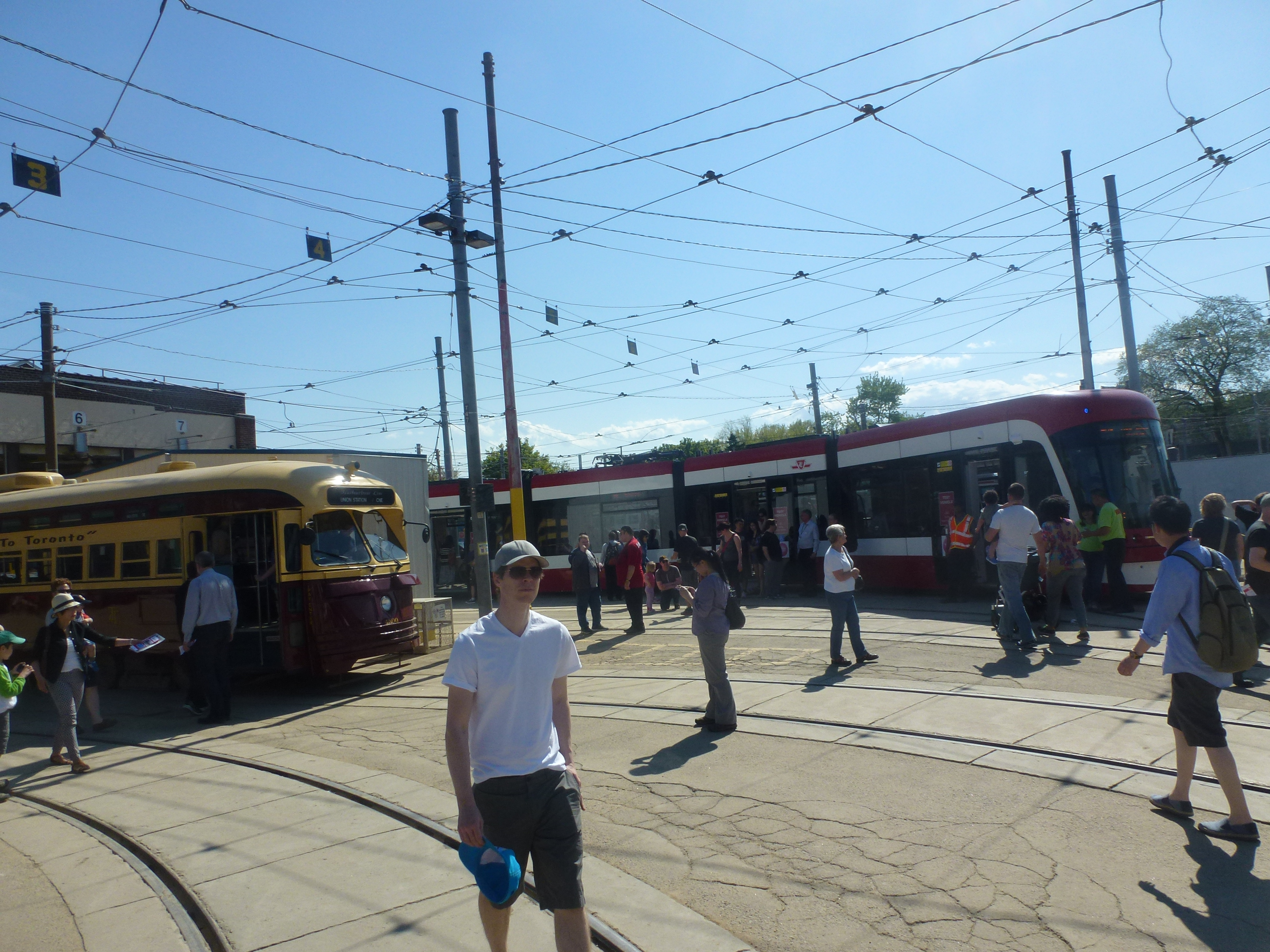 Exteriors of the TTC's legacy streetcars, at the Russell Carhouse, 2014 05 24 (9) I visited the Russell Carhouse during Doors Open Toronto, 2014 and took photos of two legacy streetcars, the TTC's last Peter Witt streetcar and PCC streetcar 4959, and one of the TTC's two prototype Toronto Flexity Outlook streetcars. OTRS ticket 2012092210003274